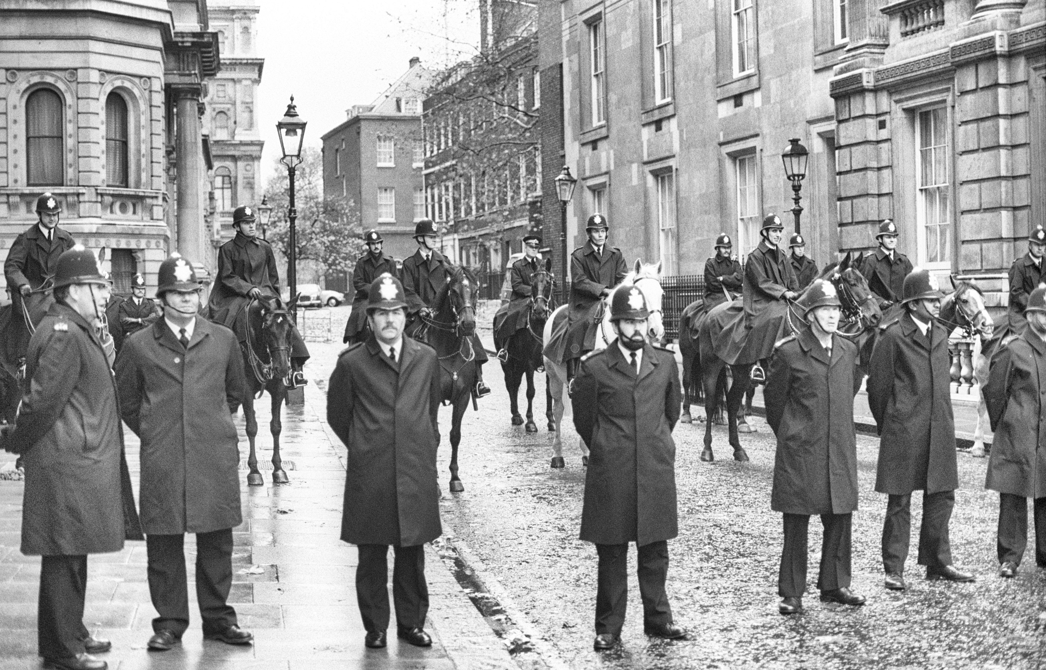 Margaret Thatcher's 10 Downing Street, London. (circa 1979)